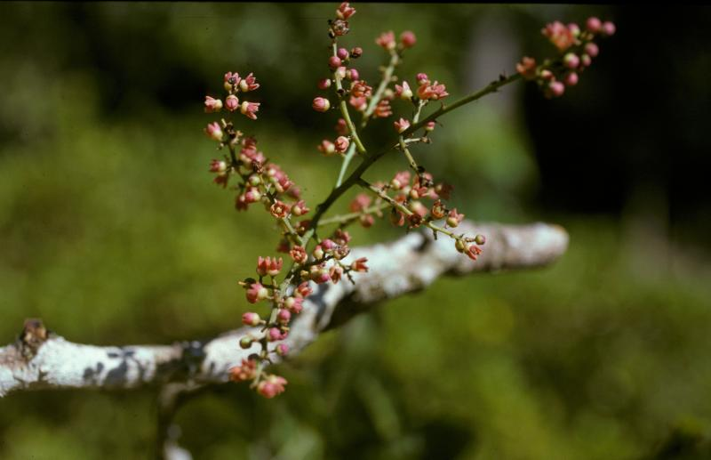 Sorindeia madagascariensis, Madagascar